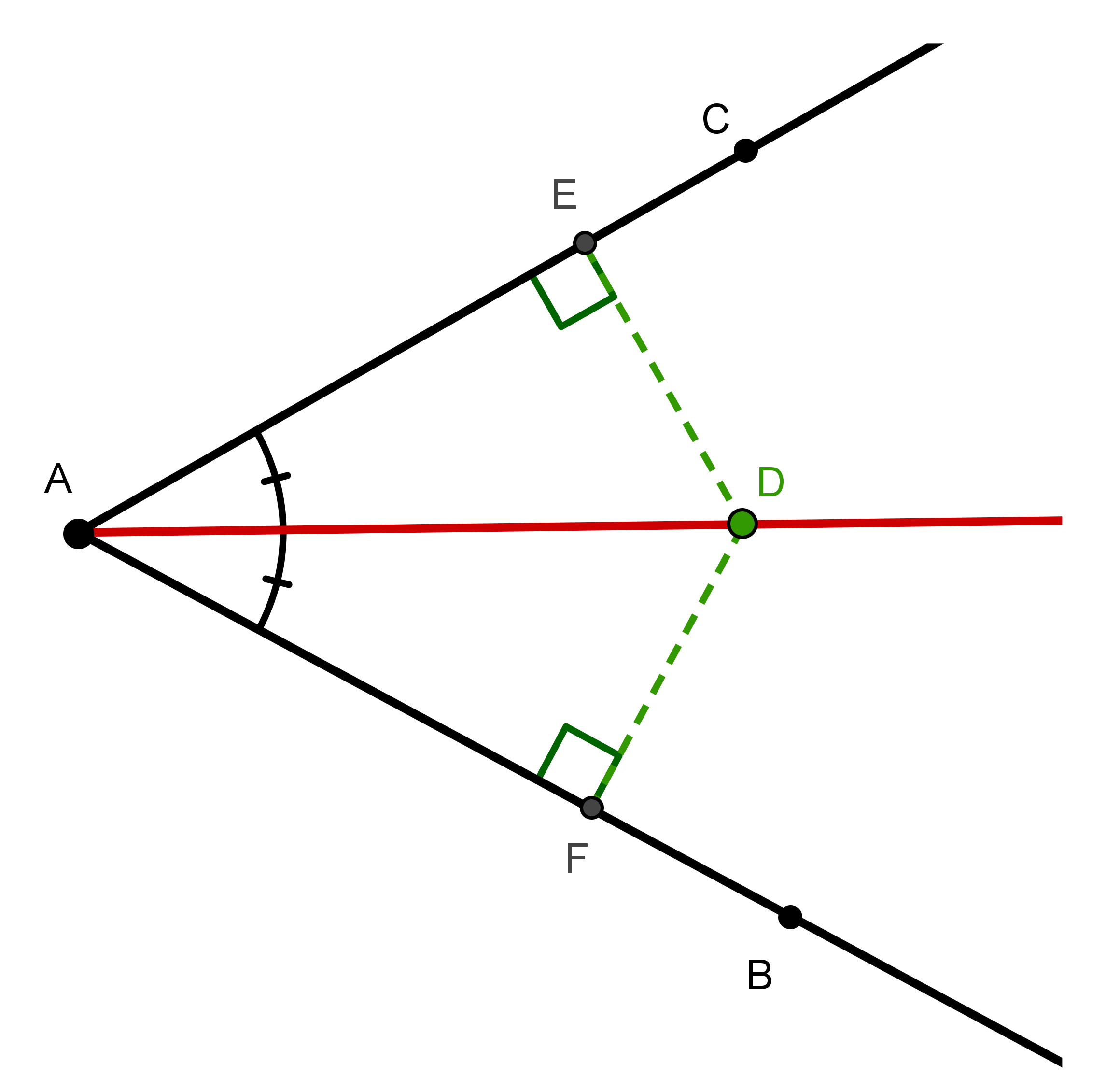 Bisector of an angle divide it in two halves and every point of it distanced equaly from the sides of angle